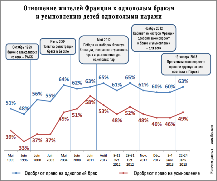 Same-sex marriage in France